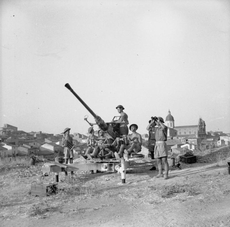 The British Army in Sicily 1943 Bofors anti-aircraft gun crew of 268 Battery, 40th LAA Regiment on alert, 16 July 1943.